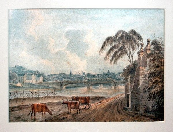 Lancaster from Lune Bank, Skerton by Gideon Yates for details